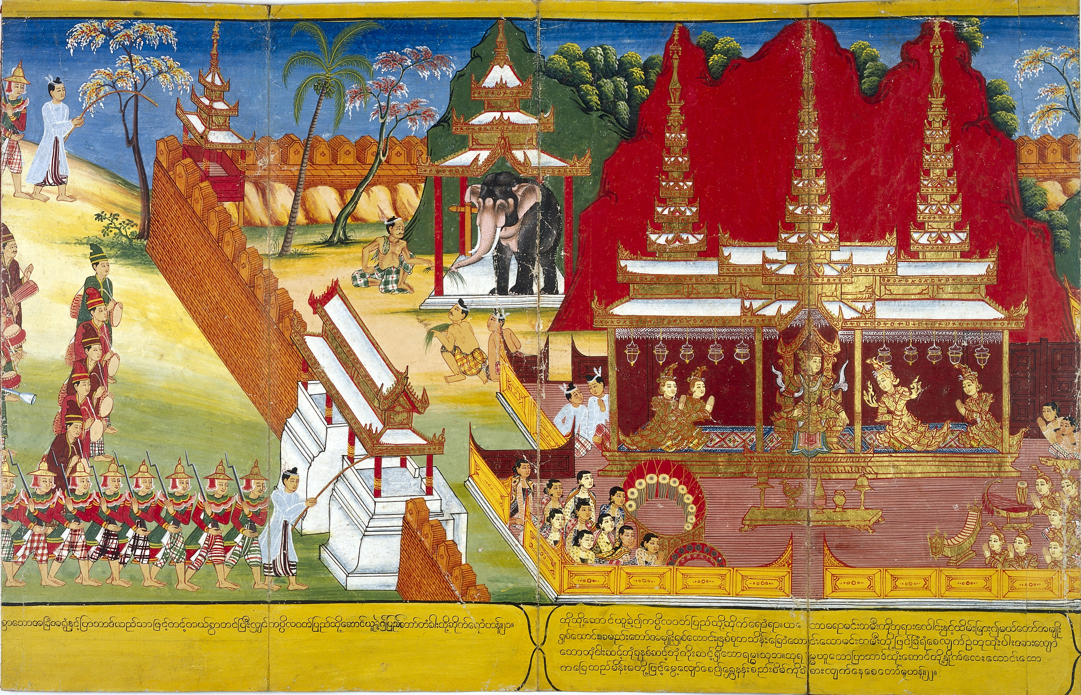 The newly married couple, Princess Yasodhara and Prince Siddhattha, Bodhisatta, in one of Bodhisatta's three palaces. Musicians and courtiers surrond the couple while an elephant is shown in its own palatial dwelling behind the palace Asian Collection Keywords: Buddhist; God; ms burmese 22; Buddhism; Religion; Art; Buddha